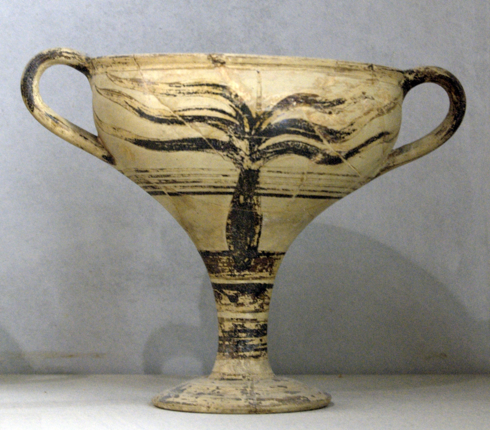 High-footed cup decorated with an octopus. Terracotta, Late Helladic III A2 (1380-1300 BC). From Rhodes.